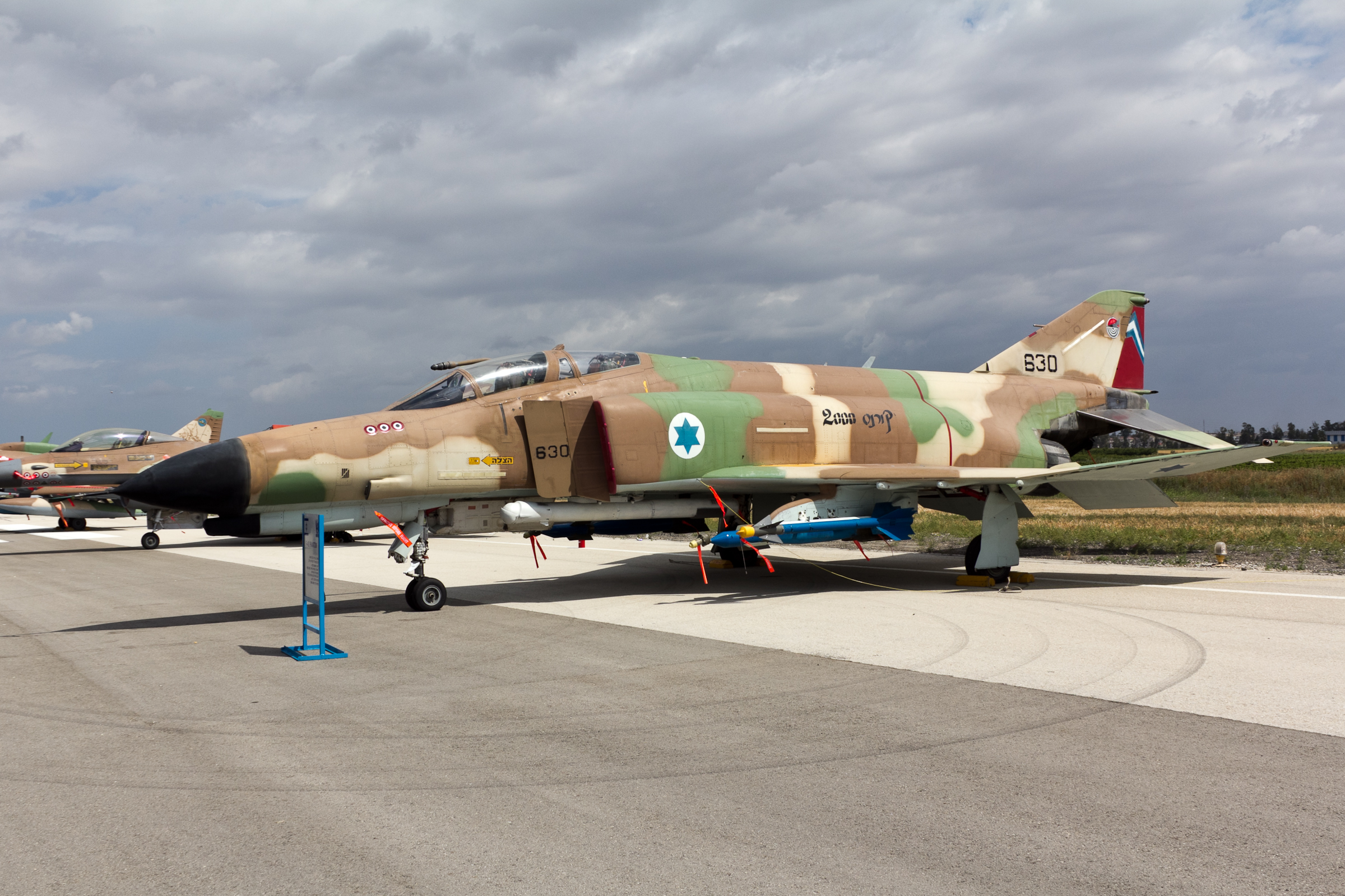 Israeli Air Force 201 Squadron F-4E Phantom II at Tel Nof, Independence Day 2013